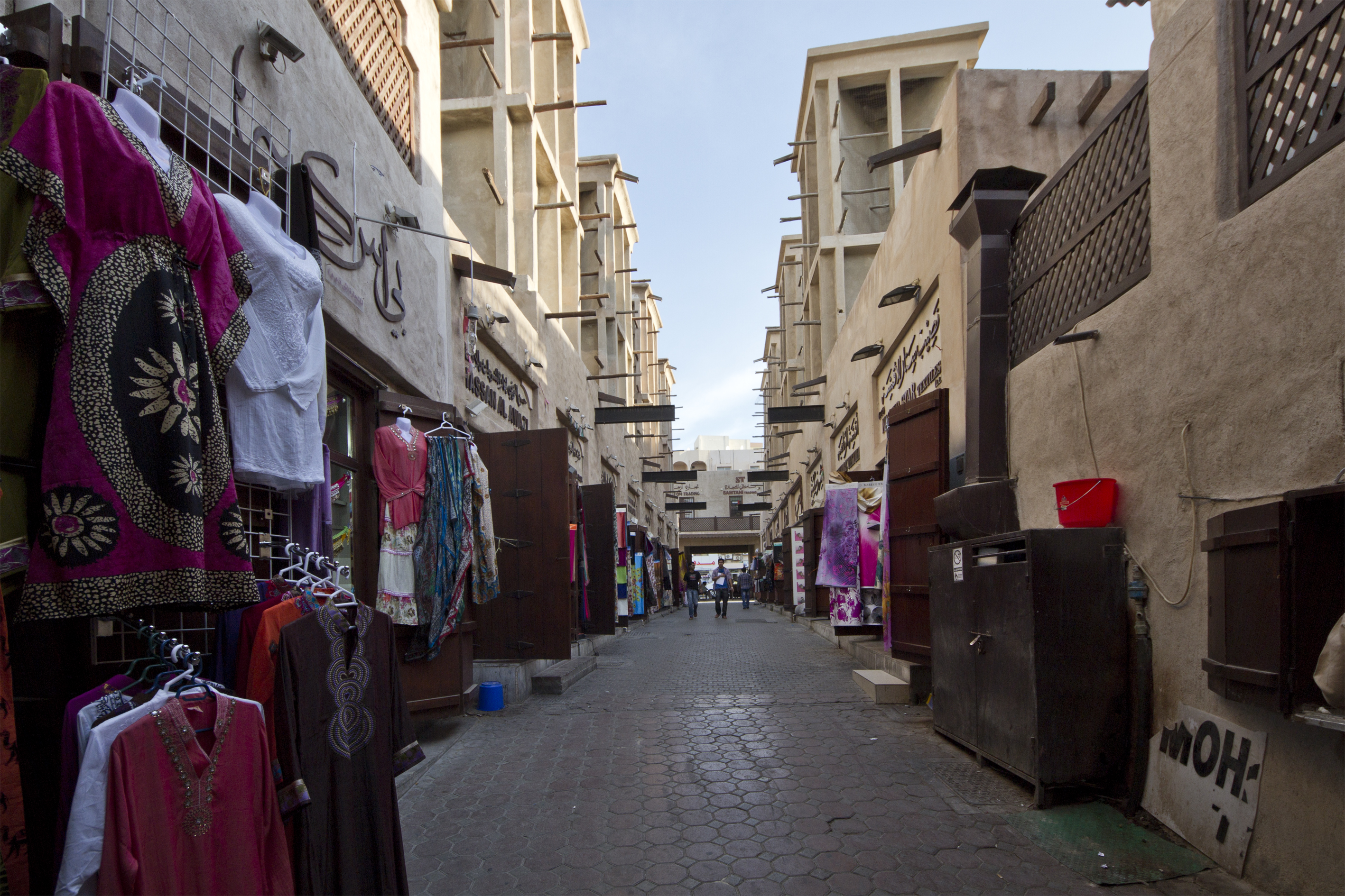 Typical souk buildings